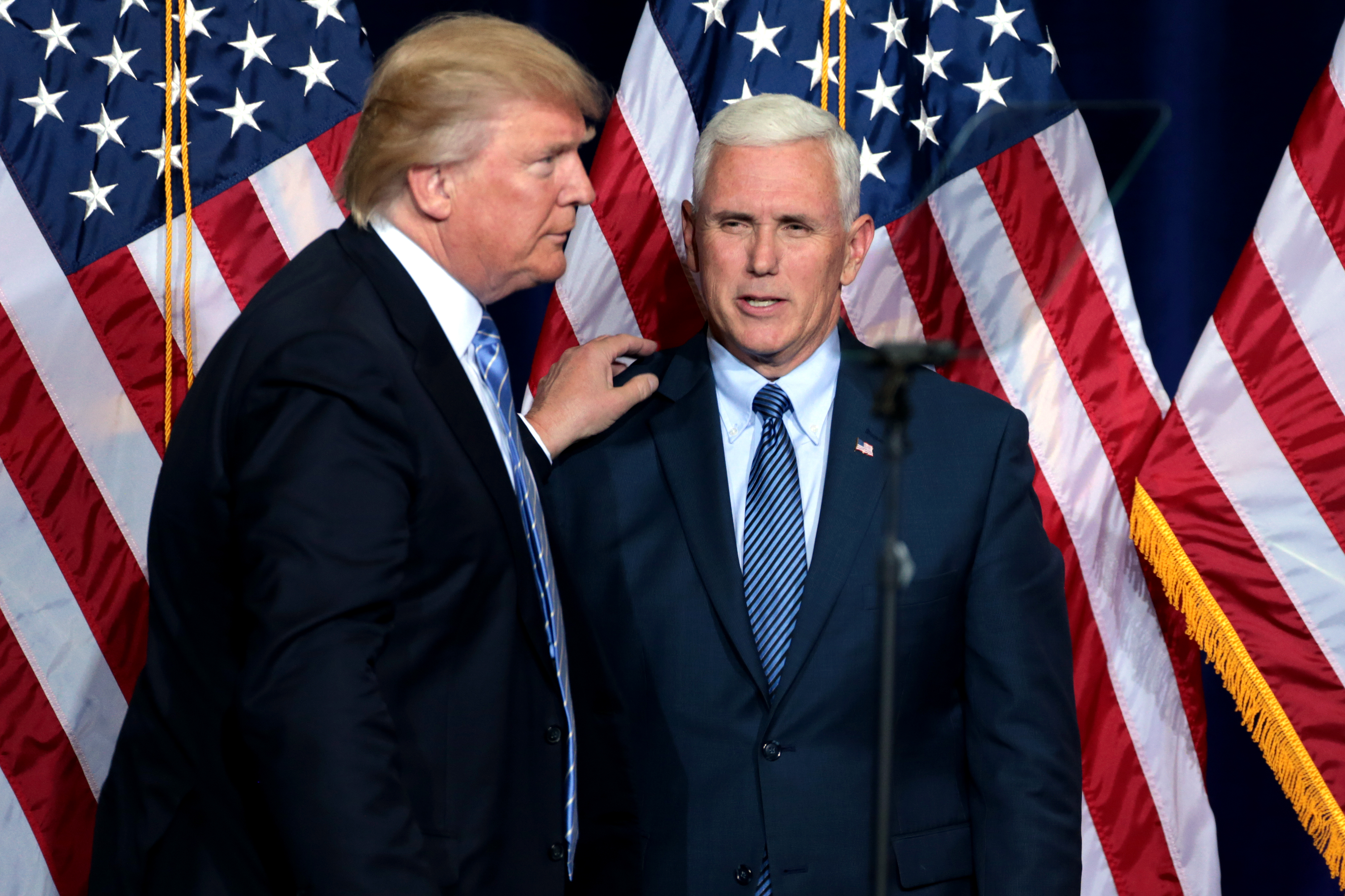 Donald Trump and Governor Mike Pence of Indiana speaking to supporters at an immigration policy speech at the Phoenix Convention Center in Phoenix, Arizona.